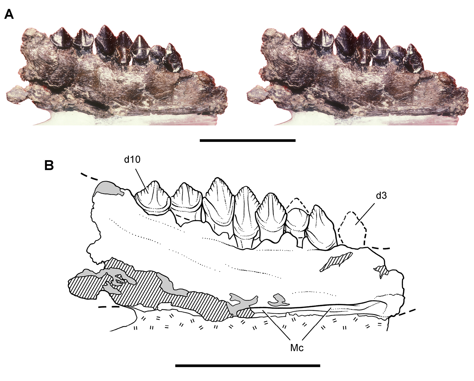 Dentary of Echinodon becklesii from the Lower Cretaceous Purbeck Formation of England. Portion of the left dentary (NHMUK 48213) in medial view. Stereopair (A) and line drawing (B). Hatching indicates broken bone; dashed lines indicate estimated edges; tone indicates matrix; hash marks indicate carbowax support. Scale bars equal 1 cm. Abbreviations: d3, 10 dentary tooth 3, 10; Mc Meckel’s canal.